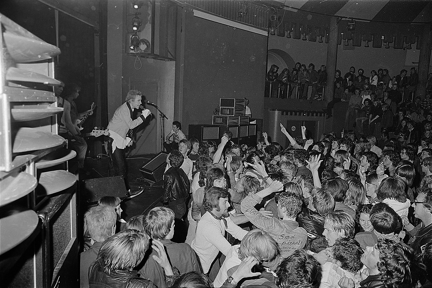 Image from National Archives of Norway's Flickr-Album "Protest" (all images marked with "No known copyright restrictions")